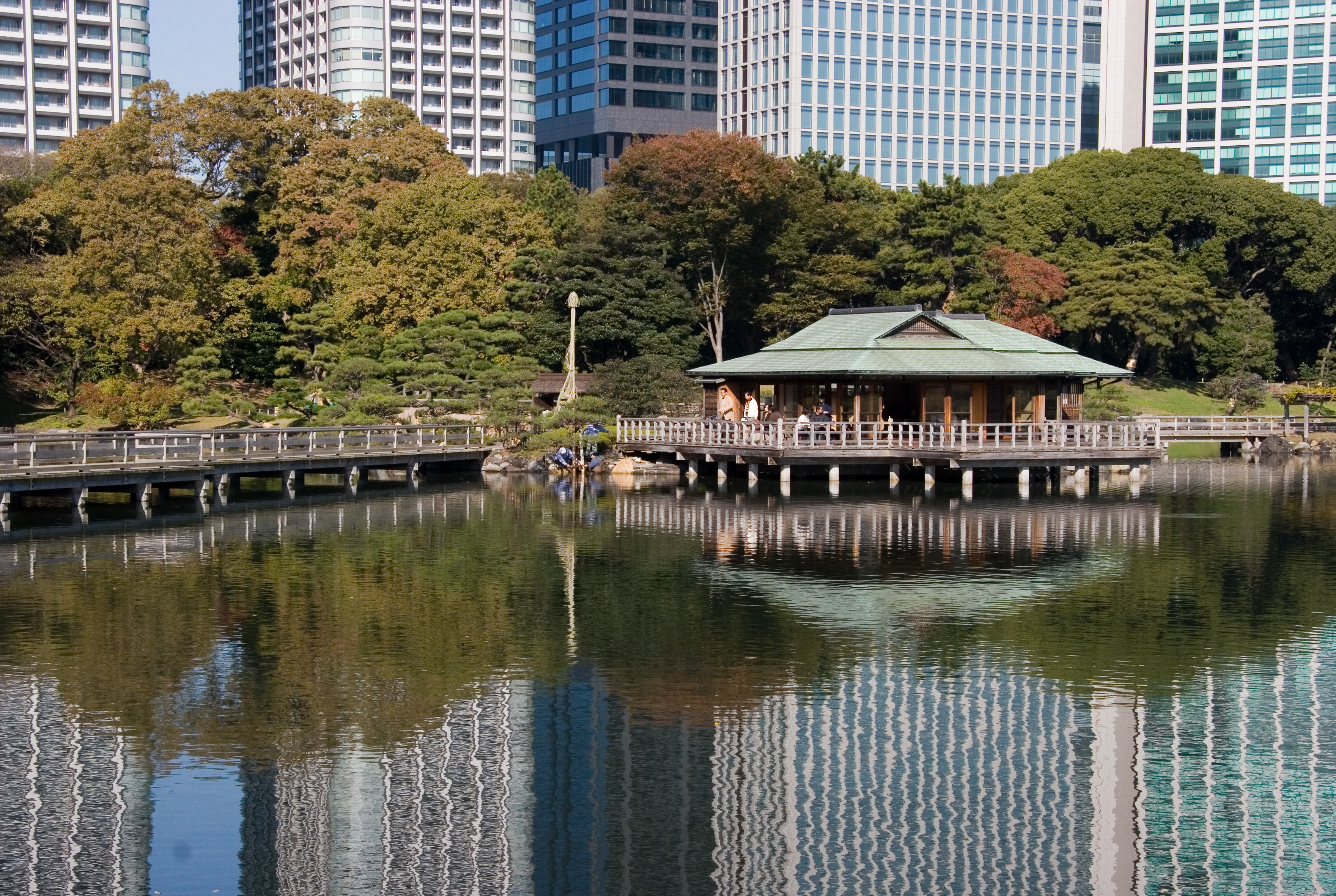 Nakajima-no-ochaya (Naka island teahouse), Hama-Rikyu garden, with Shiodome skyscrapers in the background (Tokyo, Japan)